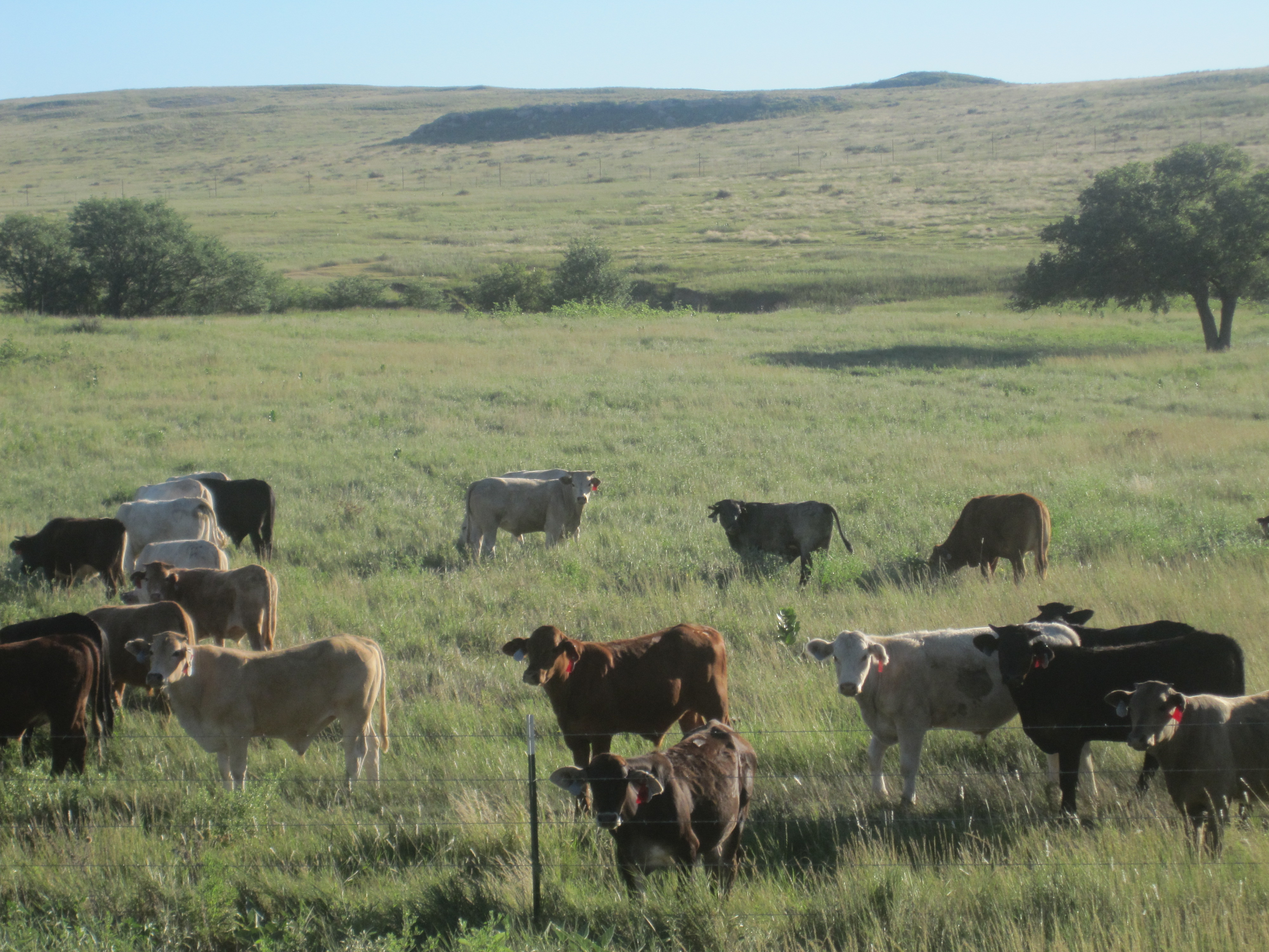 I took photo with Canon camera in Ochiltree County, TX.